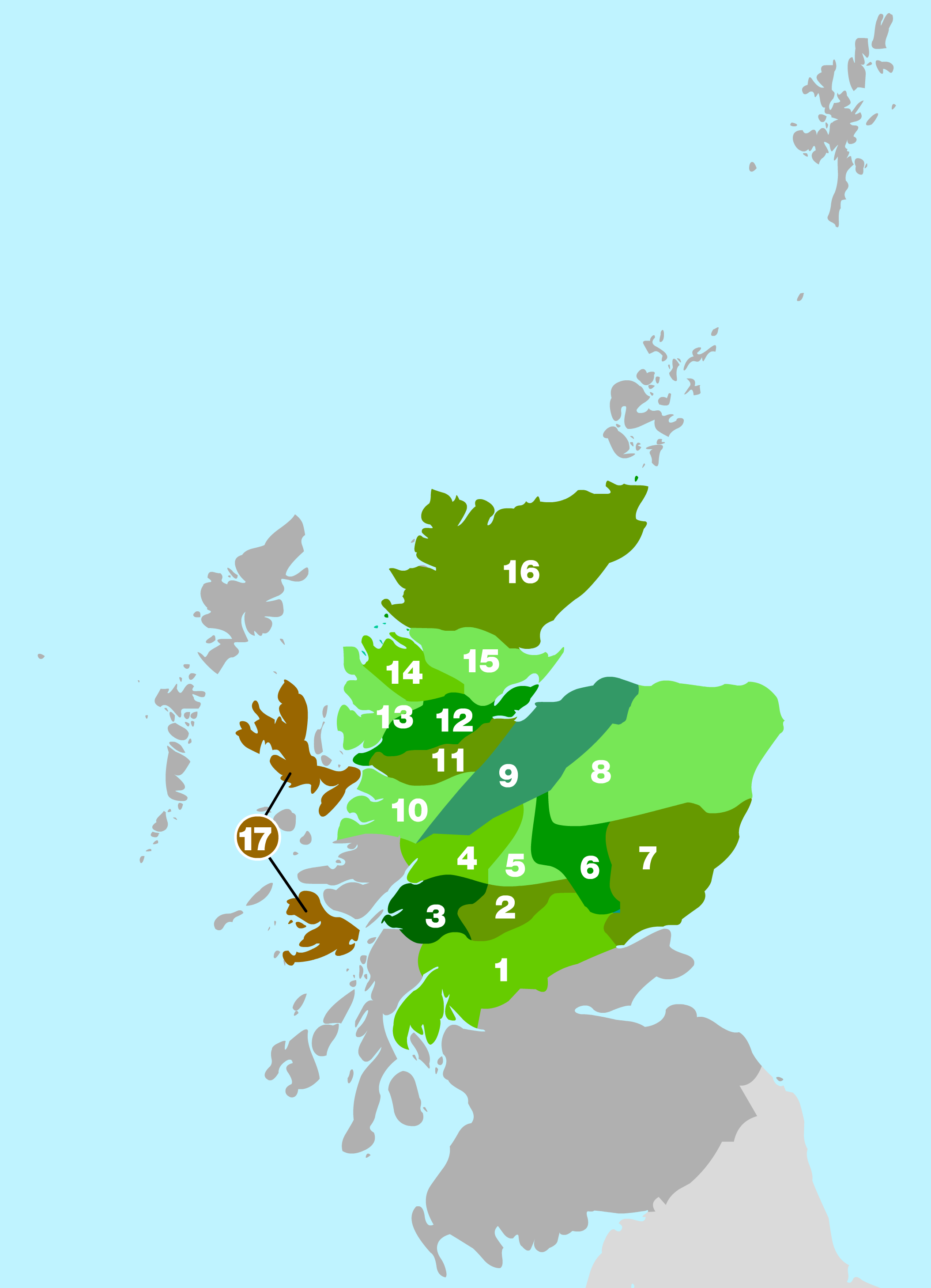 Rough outline of the areas used in Munro's 1891 tables to divide up the mountain ranges of Scotland. Map based on information in the 2006 edition of The Munros - SMC Hillwalkers' Guide ISBN 0907521940